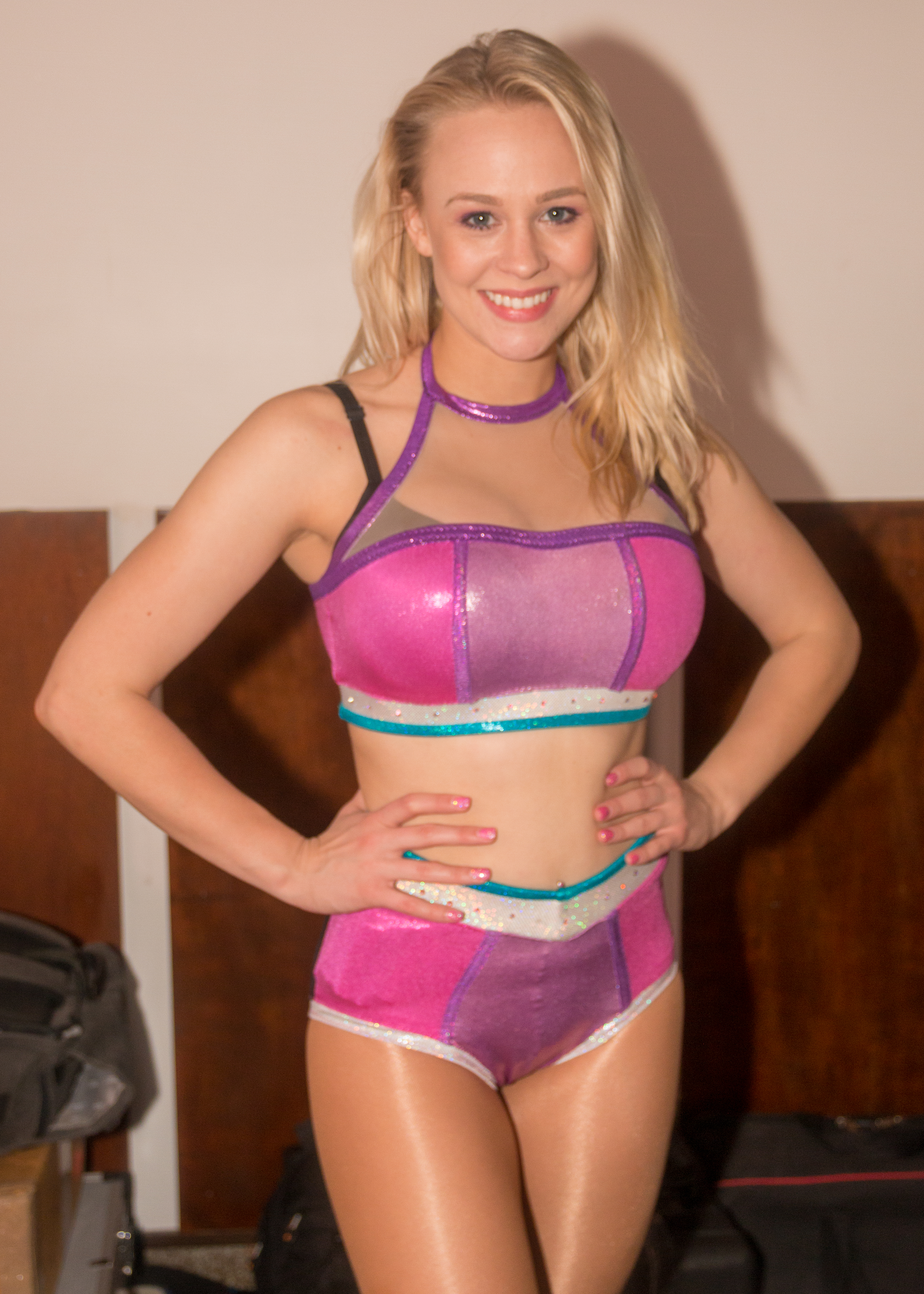 Penelope Ford posing at an Alpha-1 show in Hamilton, ON